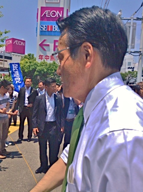 Katsuya Okada